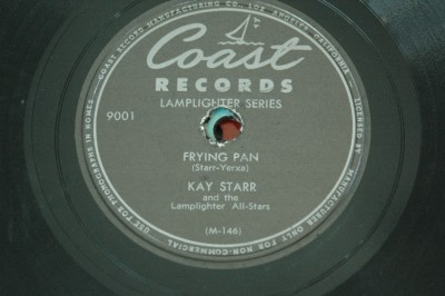 frying pain kay starr shellack